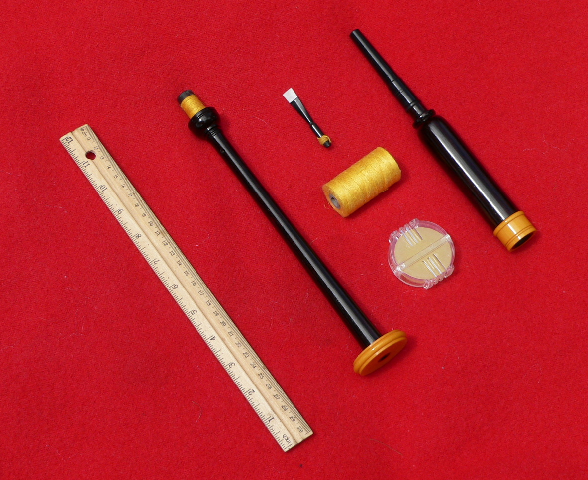 A bagpipe practice chanter made out of African Blackwood by R.G. Hardie. Also shown is a reed, a spool of #3 yellow hemp, and some yellow beeswax. The ruler at left is to provide scale.